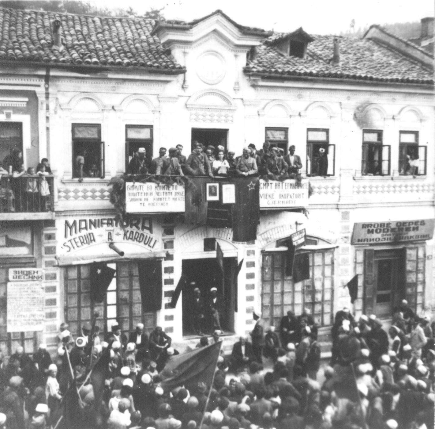 Public rally in liberated Kičevo after elections for the Main people's liberation committee for Western Macedonia, 26 September 1943.